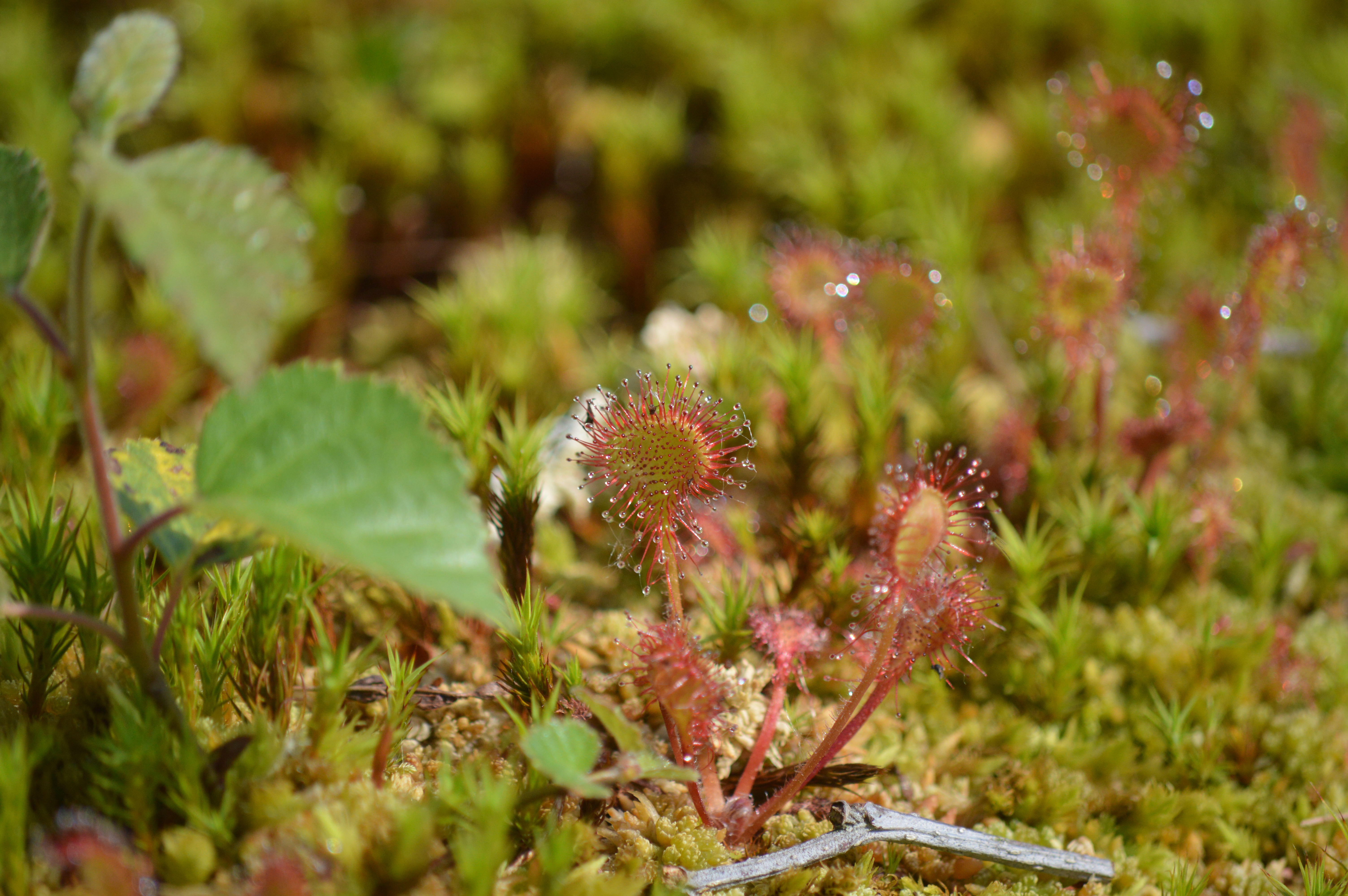 Sundew (Family Drosera) is a rare plant in the Netherlands because it mainly grows on peat.